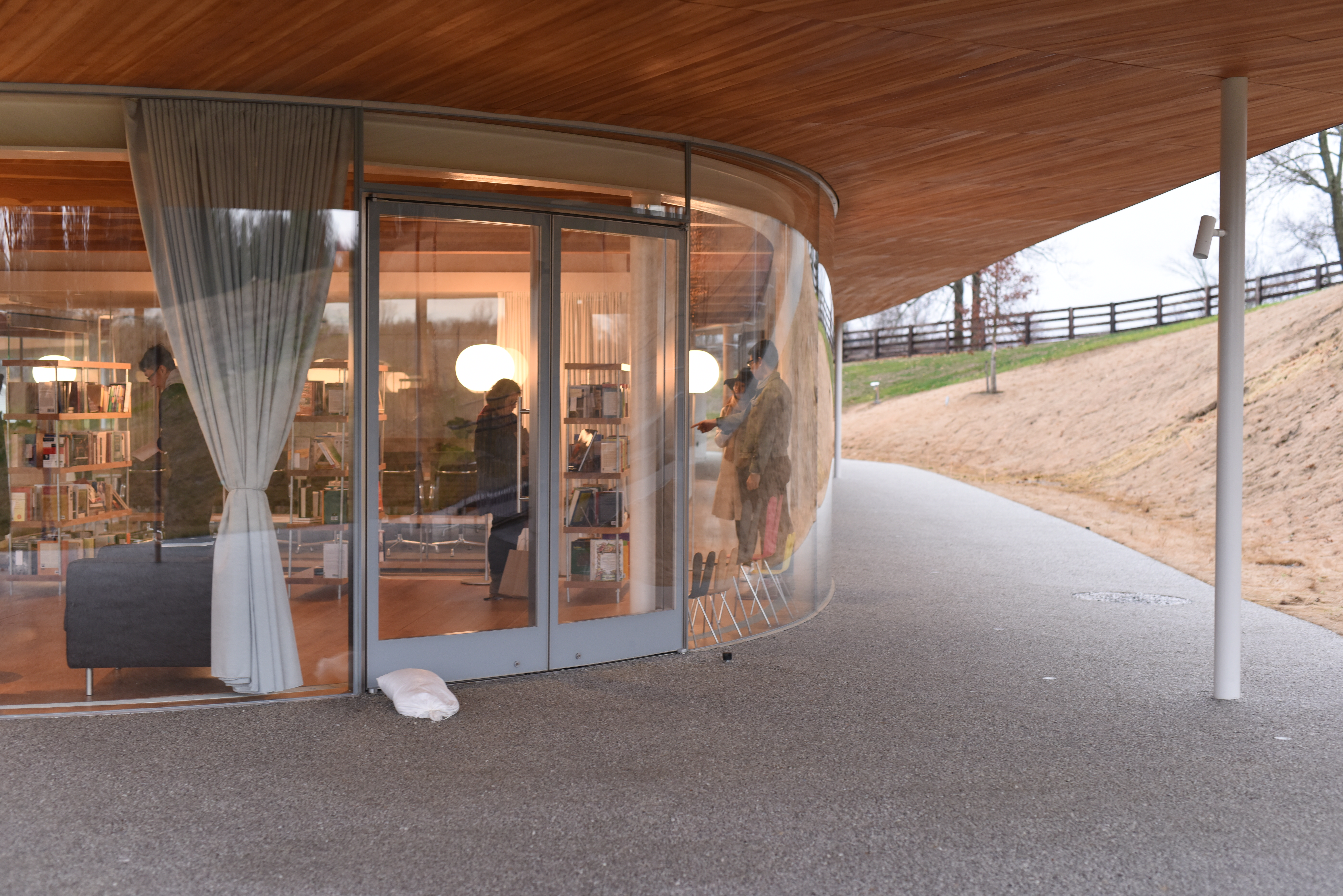 Grace Farms Interior View from Exterior